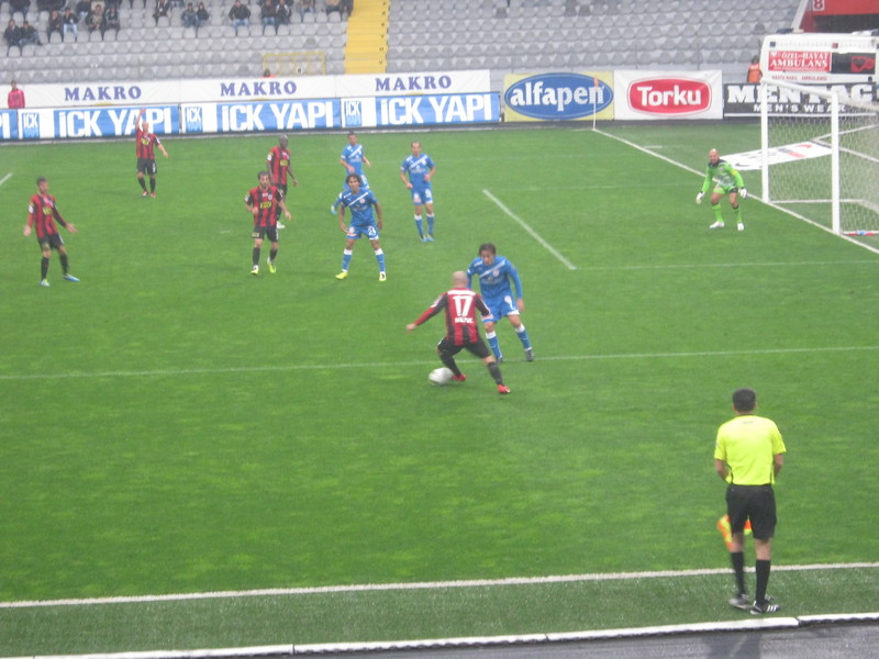 Turkish Super League match: Gençlerbirliği 3-0 Antalyaspor